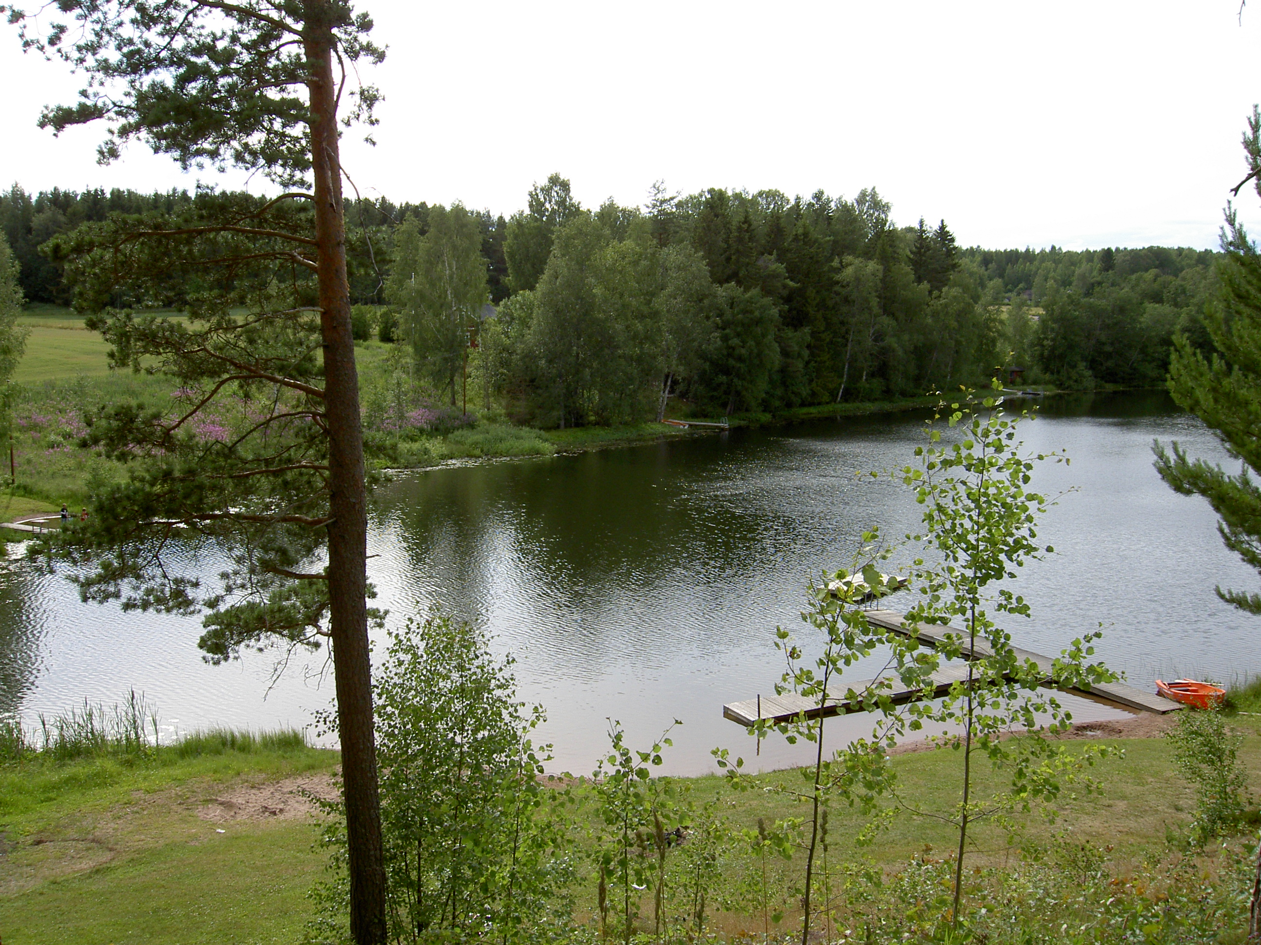 Lake Käringtjärn in Västerby, Hedemora municipality, Sweden